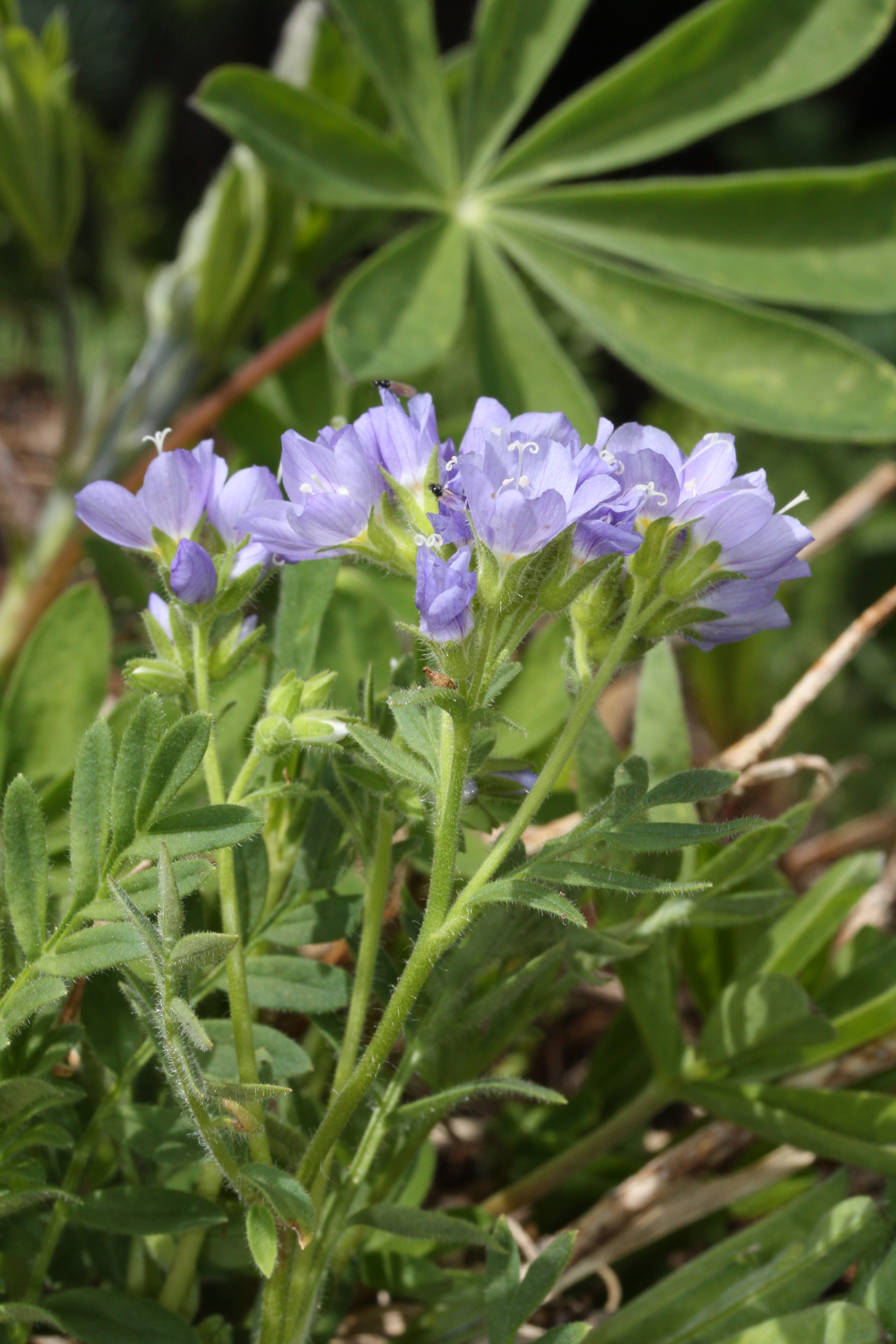 Moving Polemonium, Low Jacob's-ladder